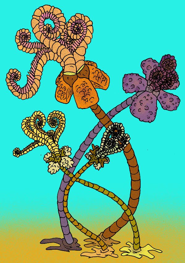 Various Permian crinoids from what is now Western Australia. Counter clockwise, from top: Calceolispongia hindei, C. spectabilis, C. rubra, C. multiformis (C) Stanton F. Fink